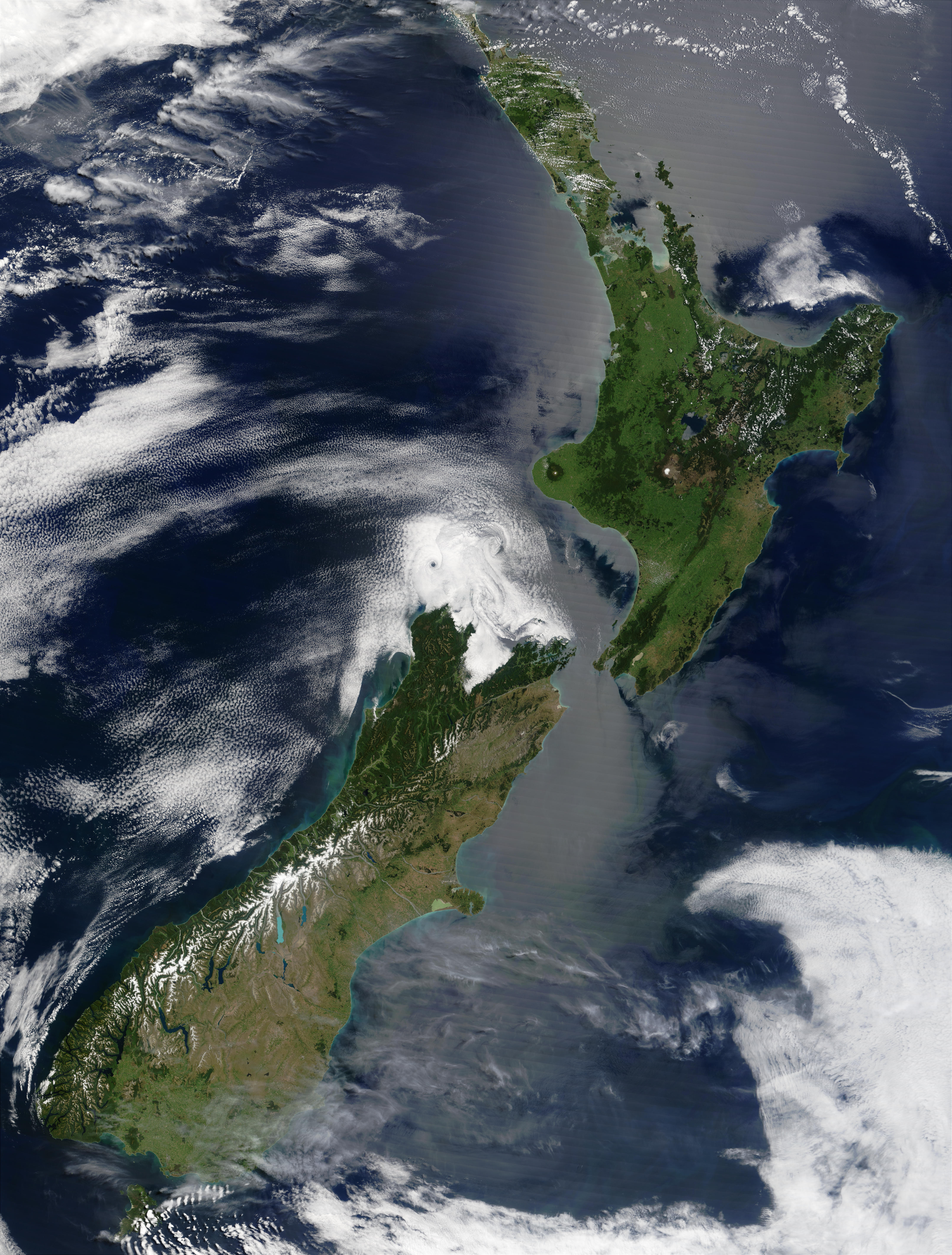 Satellite image of New Zealand in December 2002. NASA's description: These stunning true-color images provide a rare, cloud-free look at the island nation of New Zealand, including most of its North and South Islands. This scene was acquired by the Moderate Resolution Imaging Spectroradiometer (MODIS), flying aboard NASA’s Terra satellite, on October 23, and December 31, 2002. New Zealand is situated in the South Pacific Ocean, roughly 2,000 km (1,250 miles) southeast of Australia. Wellington, the capital of New Zealand, is located on the southern tip of the North Island, looking across Cook Strait toward South Island.